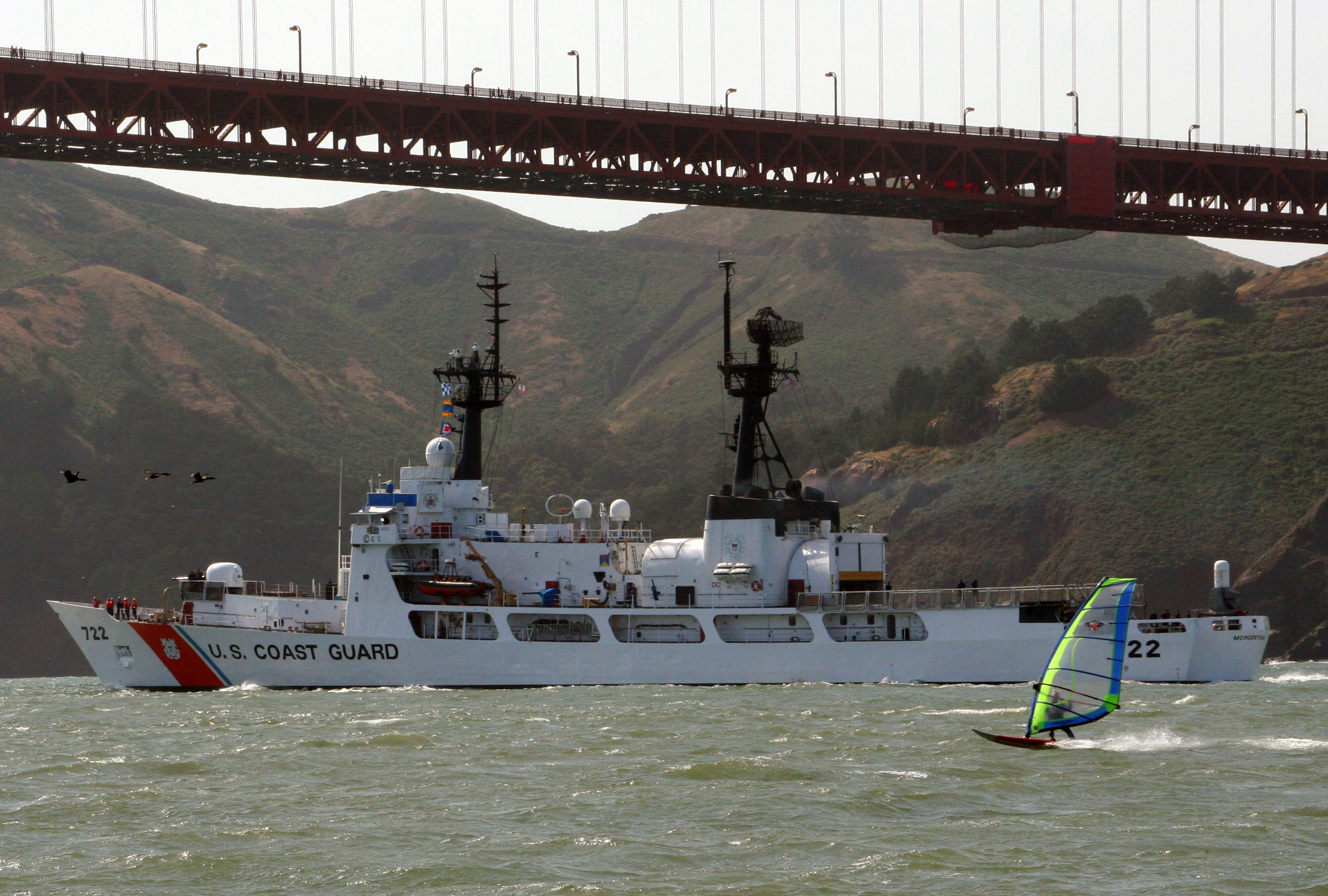 The U.S. Coast Guard cutter USCGC Morgenthau (WHEC-722) heads out to sea from its home port in Alameda, California (USA), passing under the Golden Gate Bridge.